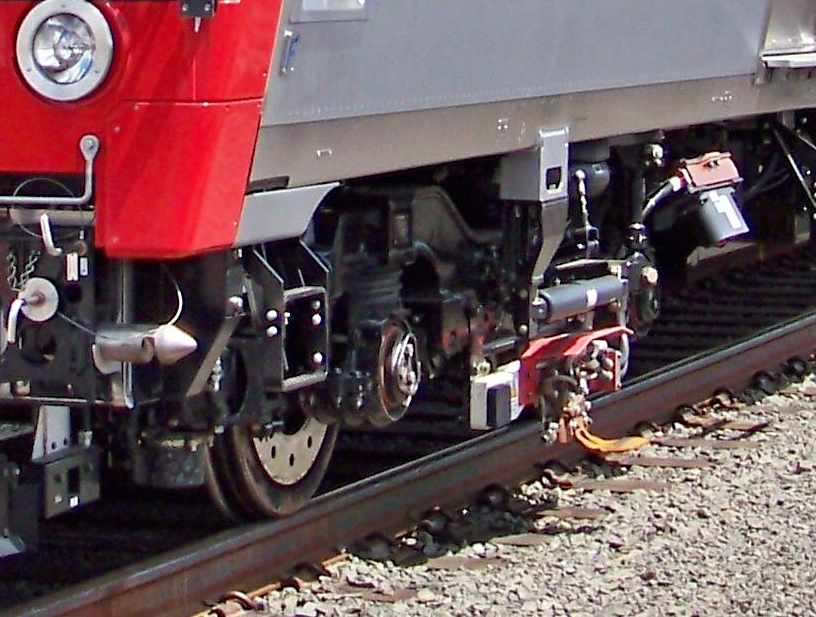 Third rail contact shoe on MNCR M8 car #9101. Reportedly this style shoe can operate on both over-running and under-running third rail.[1]